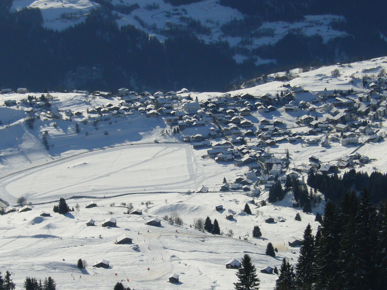 Brigels, village in the canton of Graubünden, Switzerland. Picture taken by Peter Berger, January 6, 2007.